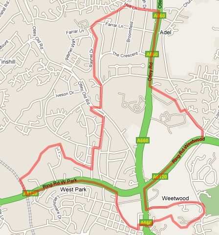 Map of the boundries of Lawnswood, Leeds